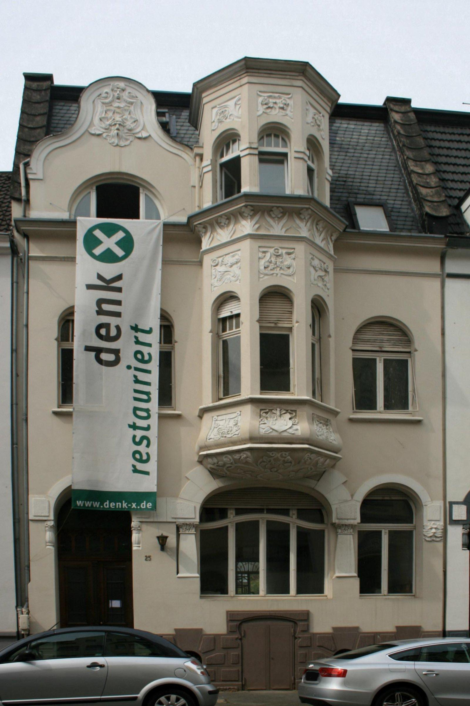 Cultural heritage monument No. G 016 in Mönchengladbach